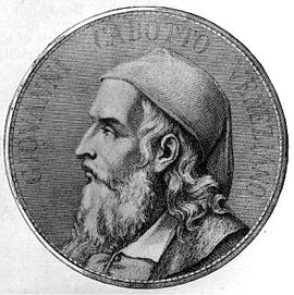 Giovanni Caboto /John Caboto, explorer (~1450 - ~1498)